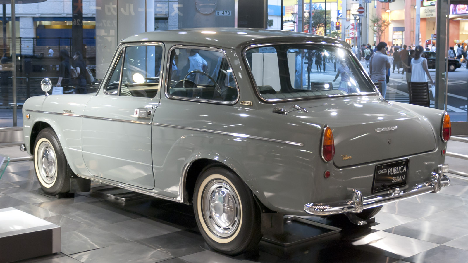 1st generation Toyota_Publica Deluxe Model UP10D （1963 - 1966）